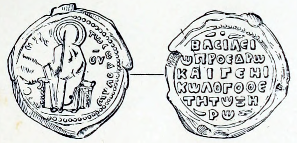 Seal of the proedros and genikos logothetes Basileios Xeros